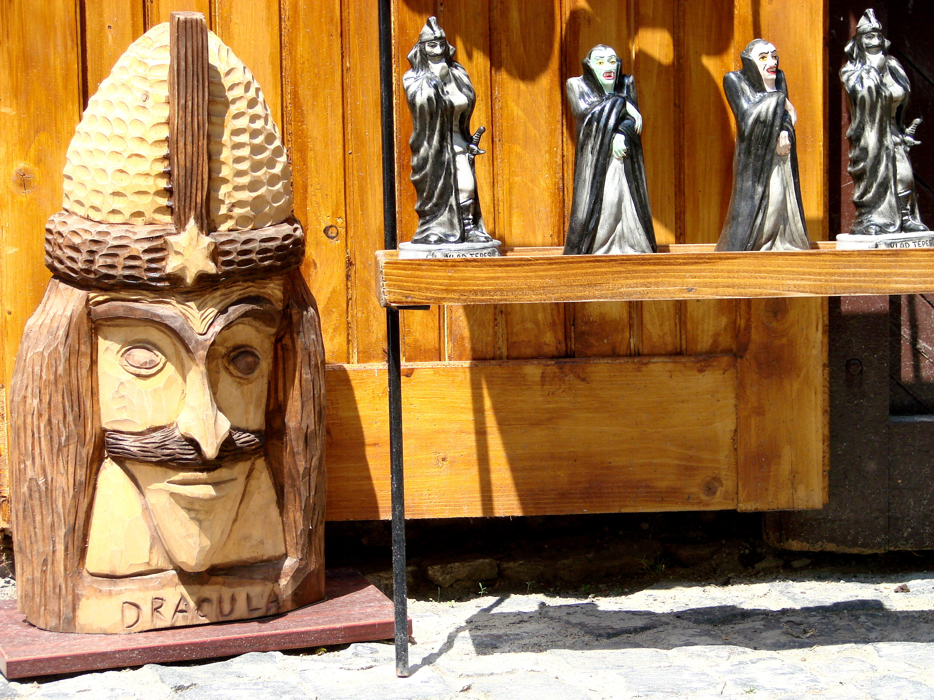 Dracula souvenirs for sale in the street, Sighisoara, Romania. Sighisoara is the hometown of Vlad the Impaler, who allegedly served as an inspiration to Bram Stoker in writing "Dracula." June 2007.